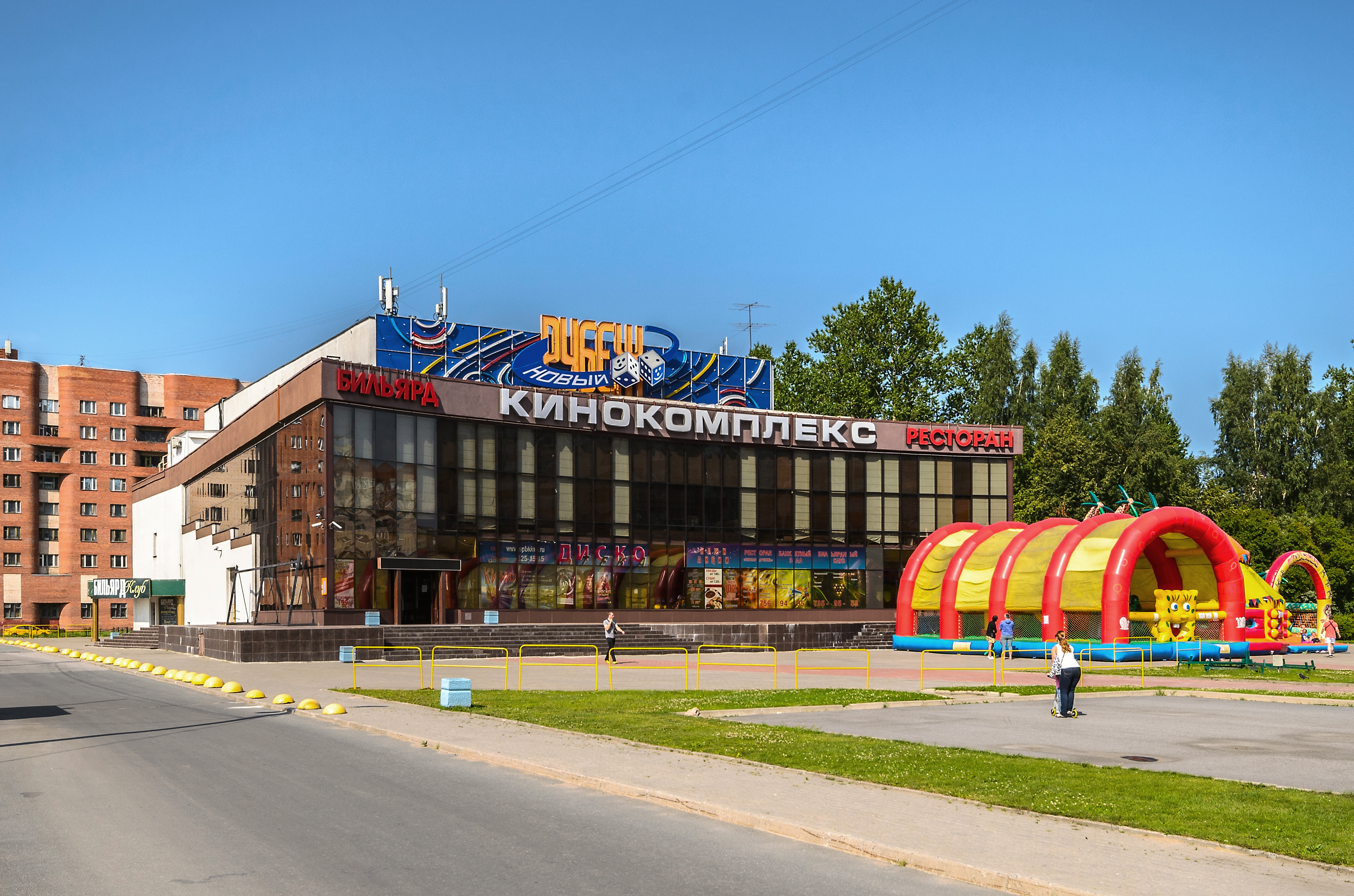 Cinema Theatre 'Rubezh' (line of defence) Veteranov Avenue in Saint Petersburg